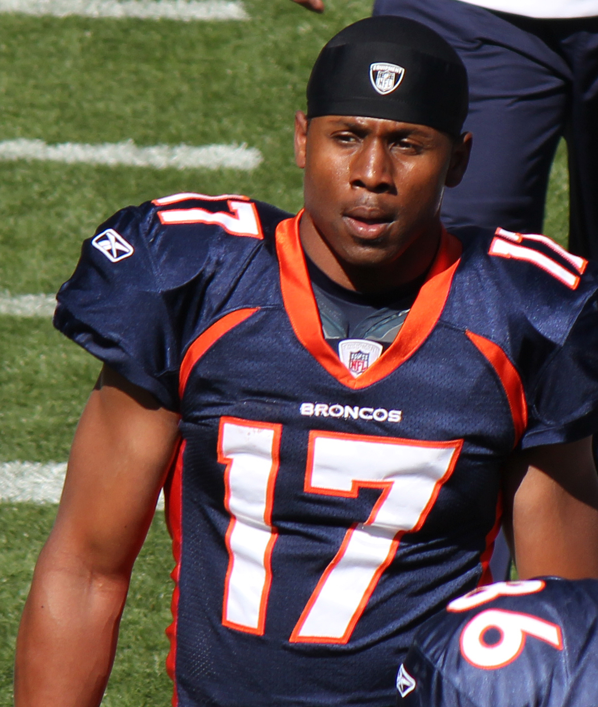 Quan Cosby, a player on the National Football League.